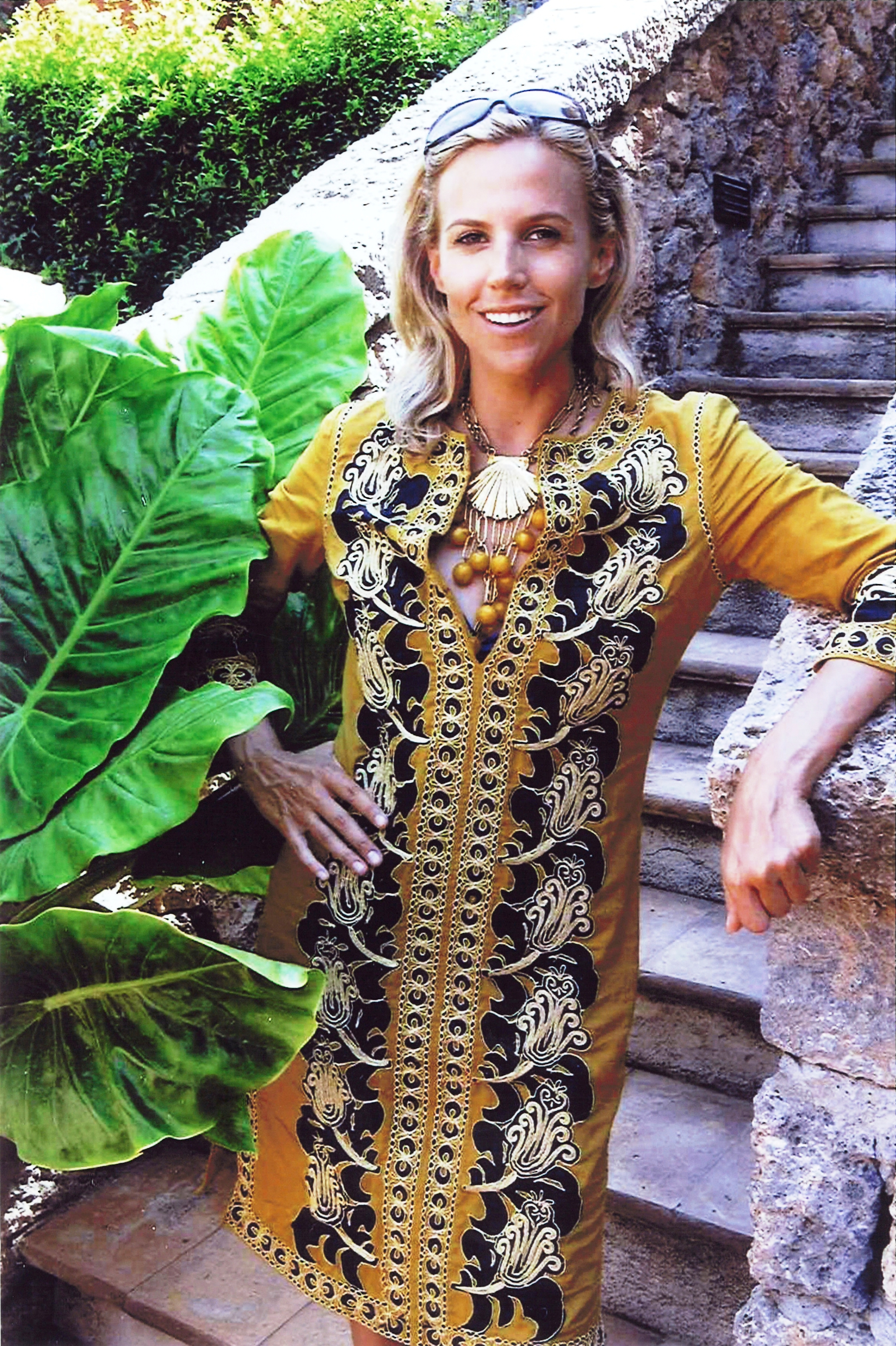 Tory Burch in India